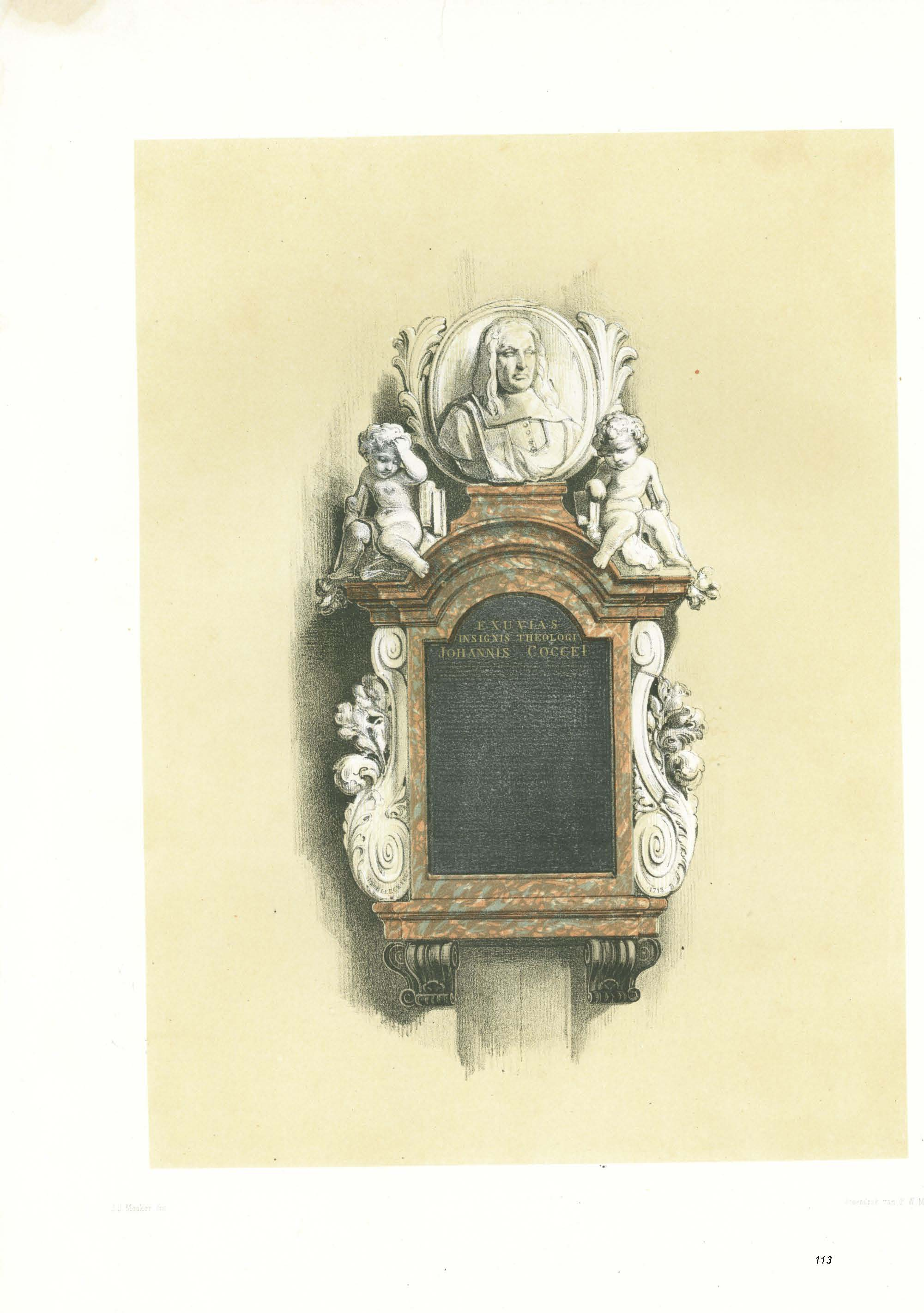 Monument in memory of Johannes Coccejus at the Leyden Pieterskerk